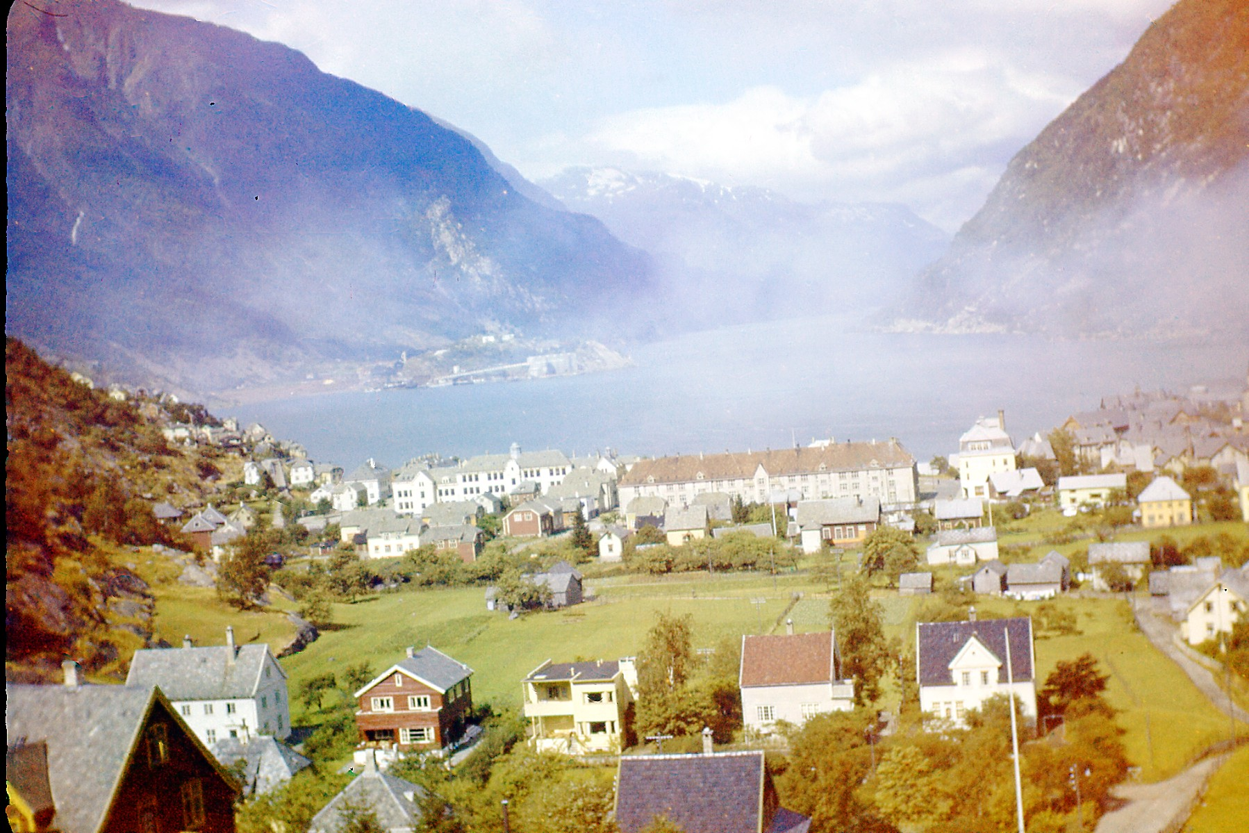 Odda in Hardanger, Norway